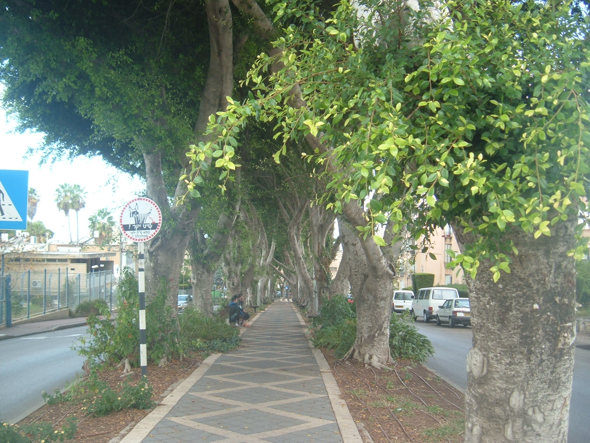 Hazionut blvd. Kiryat Ata שדרות הציונות בקרית אתא